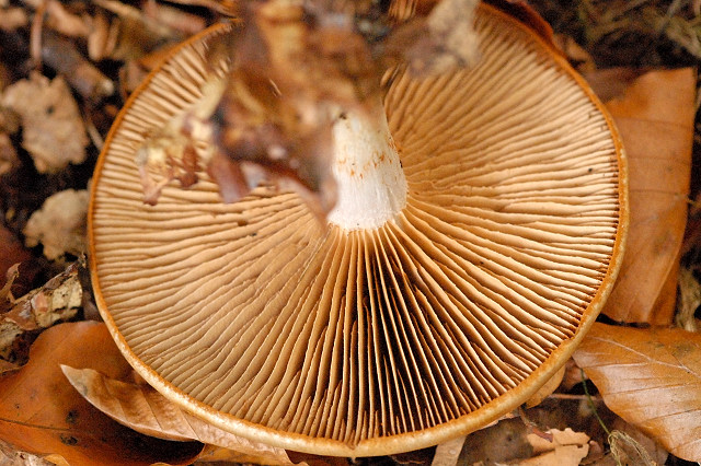 Cortinarius delibutus from Commanster, Belgium. If you think this is a different taxon, please contact James Lindsey.